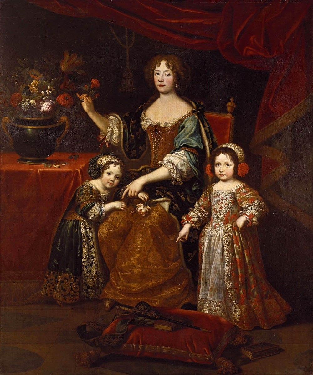 Wrongly identified sometimes as a "Portrait of Louise de La Vallière and two of her children", which is obviously inaccurate, as is shown by the fleurs-de-lis on the ermine robe, which can be only wear by a member of the royal family, in no case by a mistress of the king.